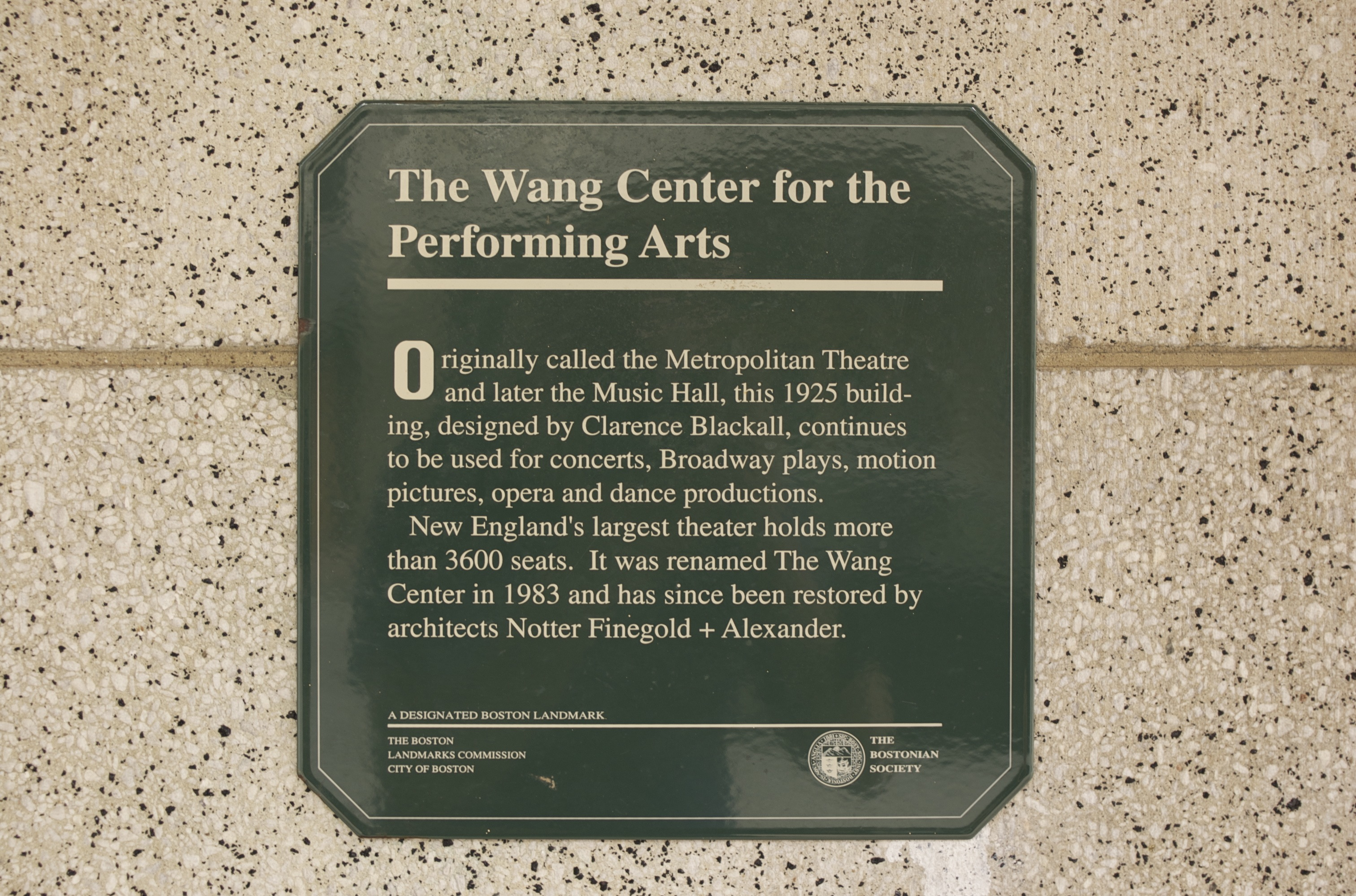 Plaque adorning the front of the Wang Theatre in Boston (formerly the Metropolitan Theatre) describing the building's historical significance.